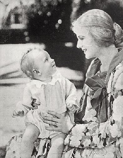 Ann Harding with her daughter Jane